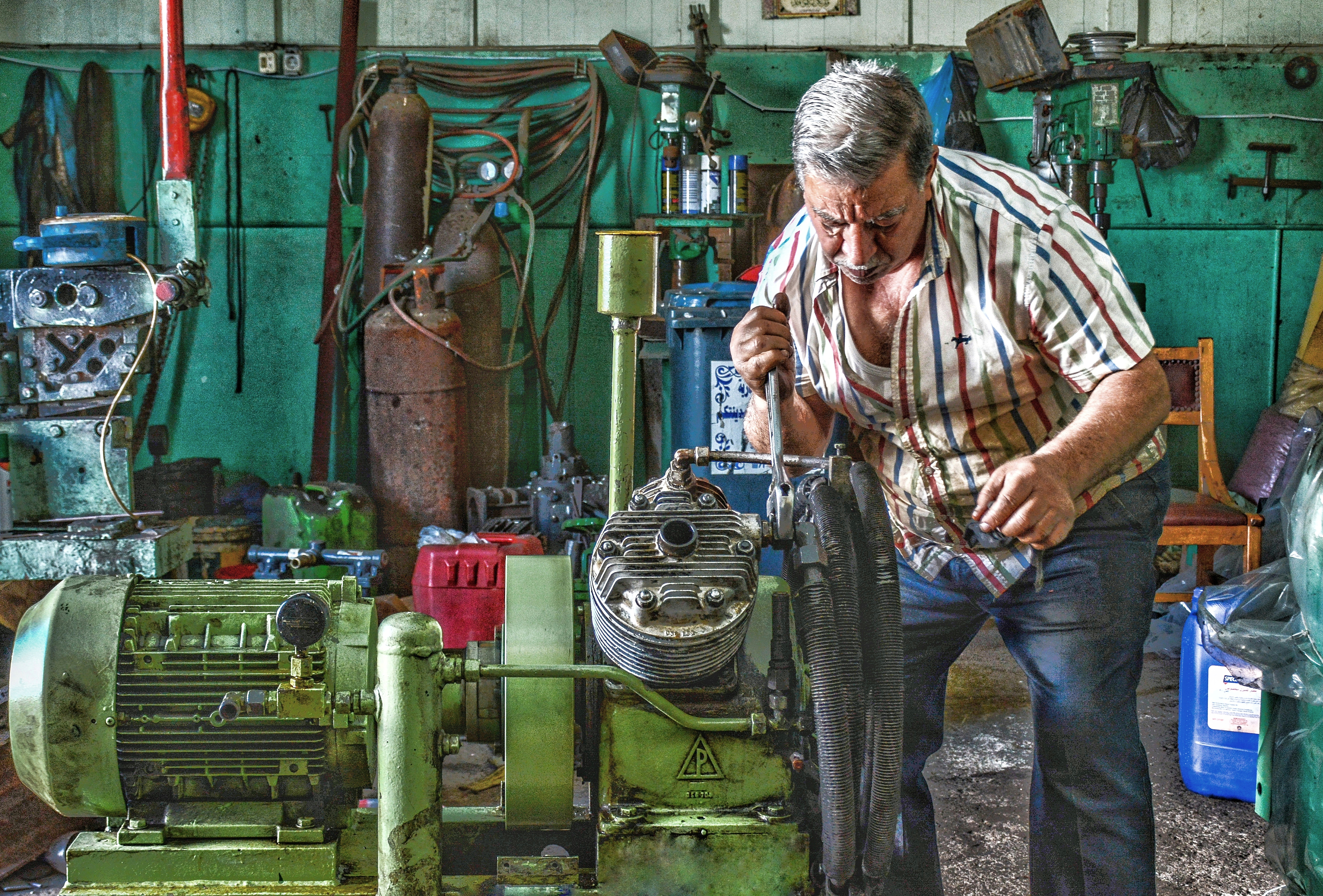 This is an image of "African people at work" from Egypt